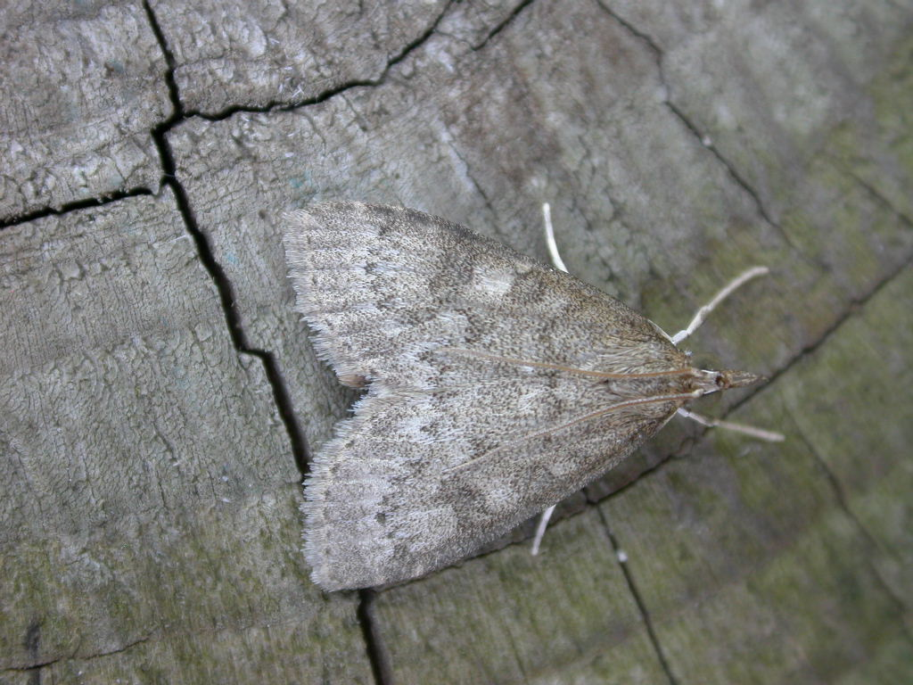 Udea prunalis, to MV light, Hellerup, Denmark, 9 July 2005